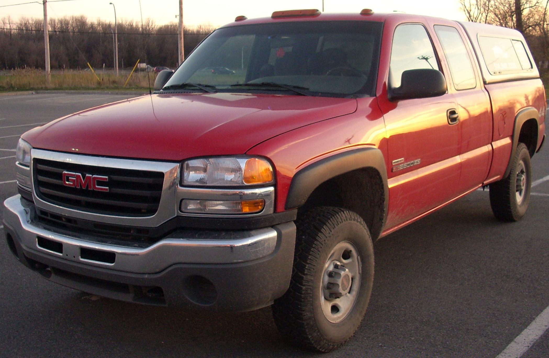 GMC Sierra photographed in Montreal, Quebec, Canada.